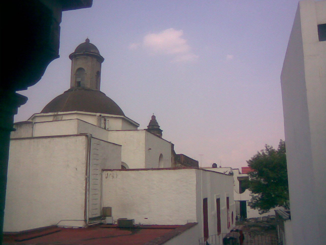 San Jeronimo Ex-templo´s semispheric cupola in UCSJ